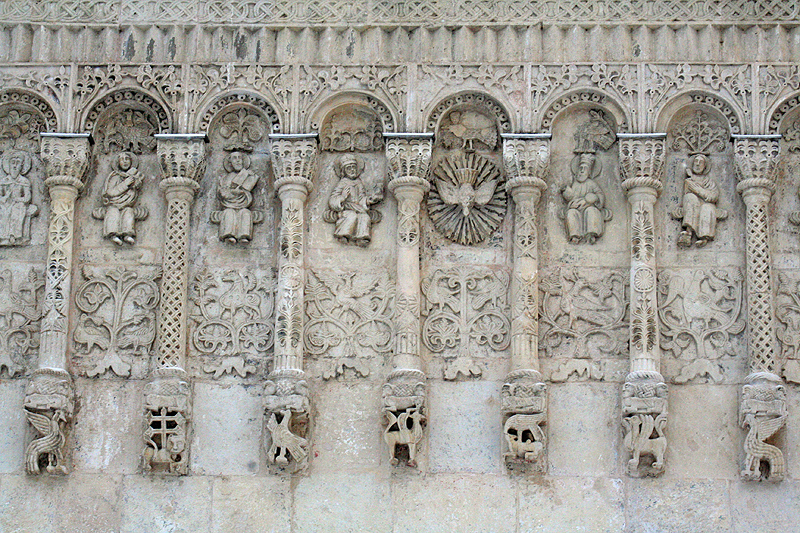 Cathedral of Saint Demetrius in Vladimir (outer decor)